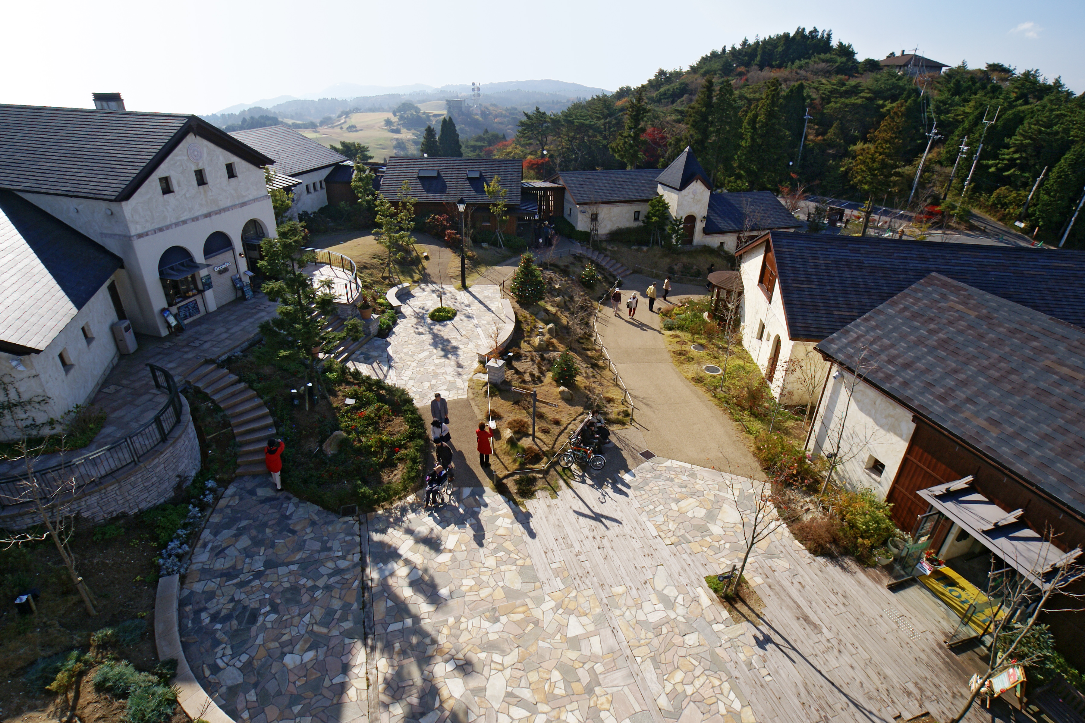 Rokko Garden Terrace in Kobe, Hyogo prefecture, Japan